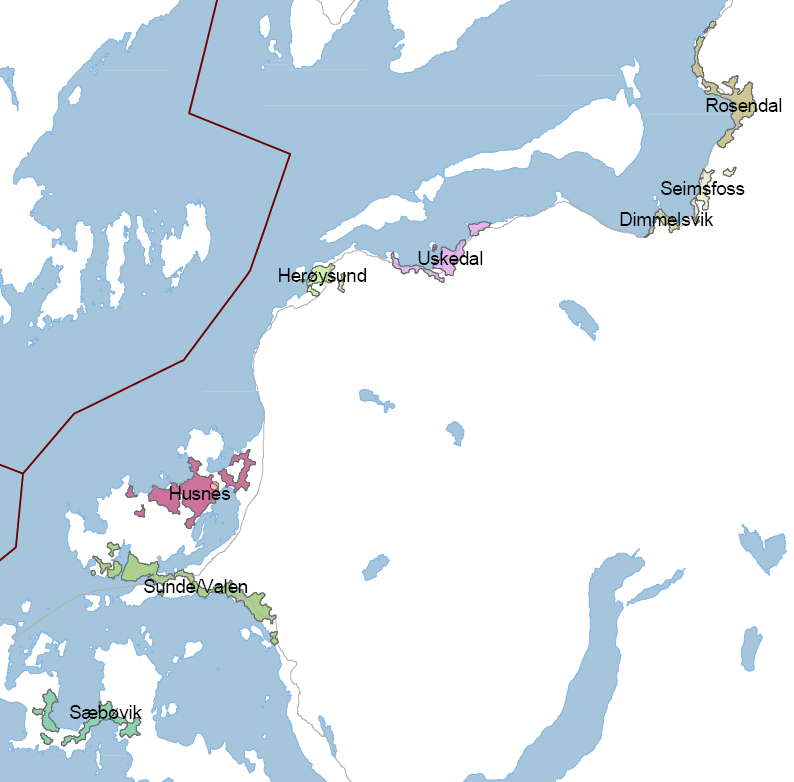 Urban areas of Kvinnherad